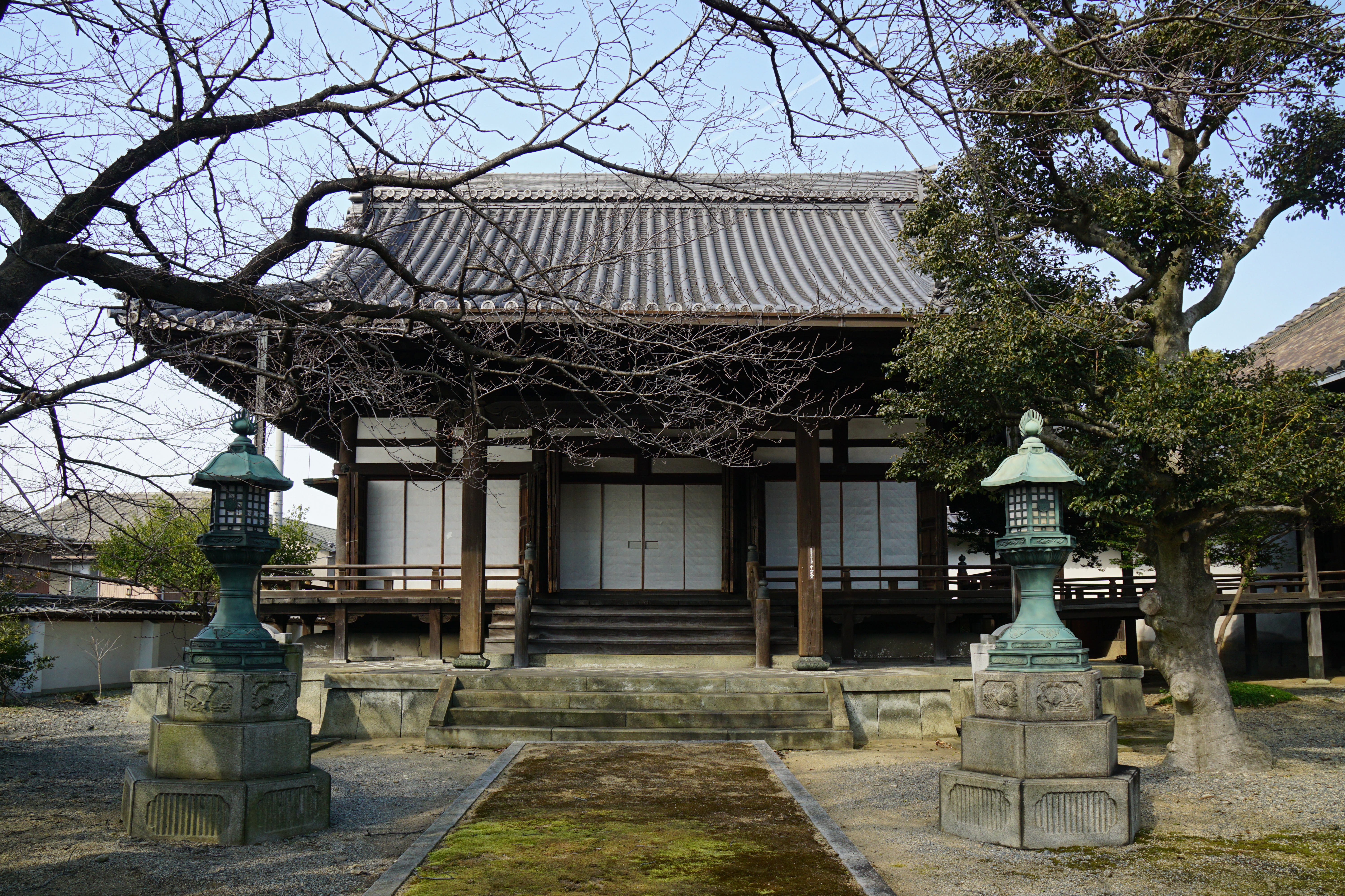 Kameyama Gobo Hontokuji in Himeji, Hyogo prefecture, Japan